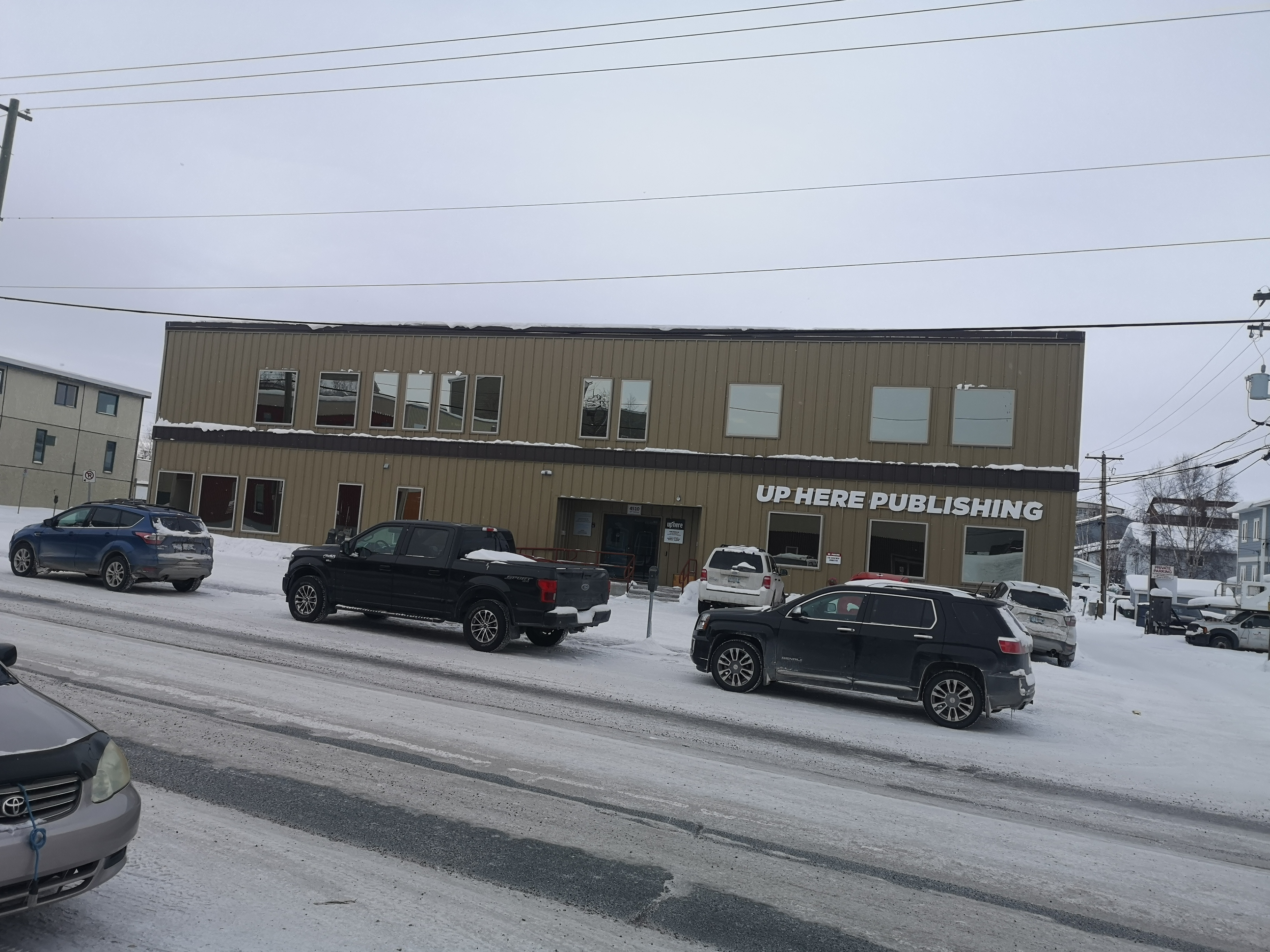 510 50th Avenue, Second Floor PO Box 2193 Yellowknife NT X1A 2P6